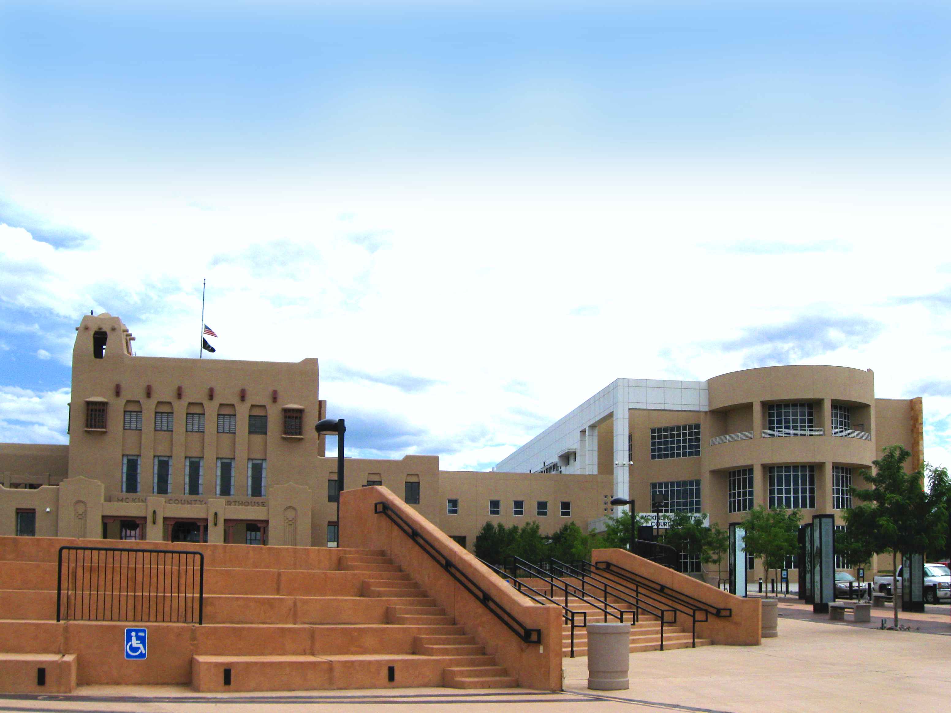 McKinley County (New Mexico) courthouse, located at 207 W. Hill Avenue in Gallup, New Mexico.